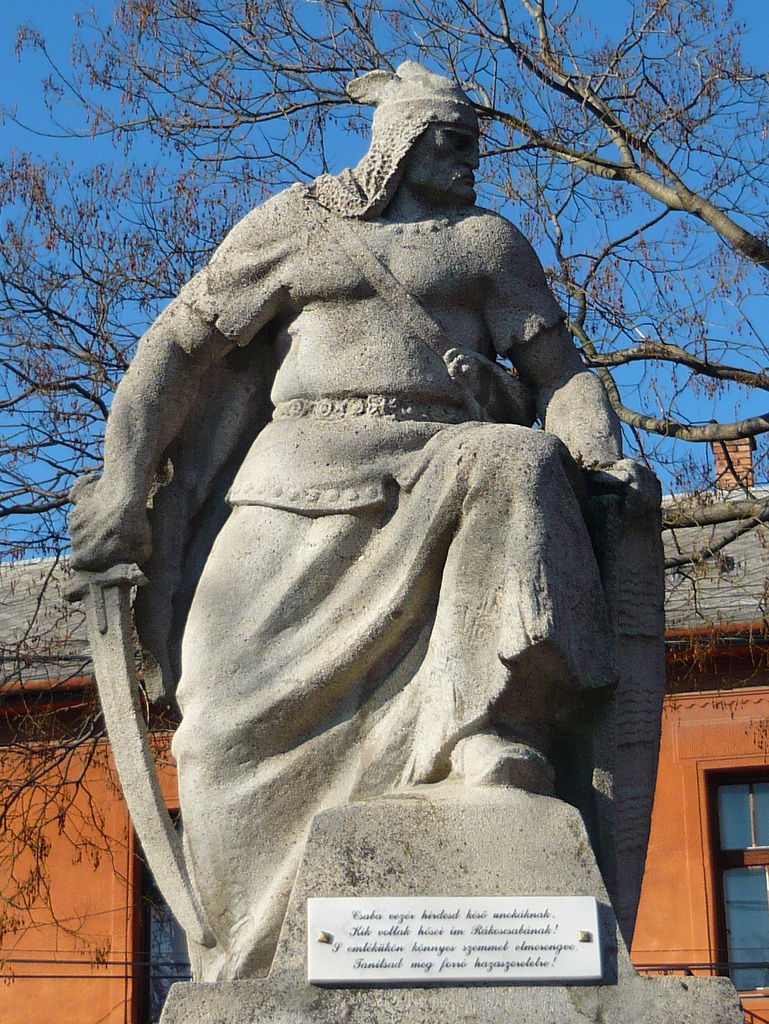 Statue of Prince Csaba, Budapest, District XVII